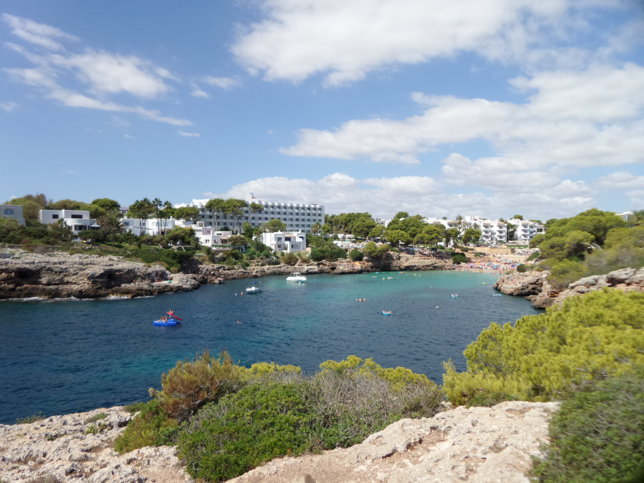 Cala Esmeralda (Bay) in Cala d'Or (Residential Area) von Cala d'Or (Township)